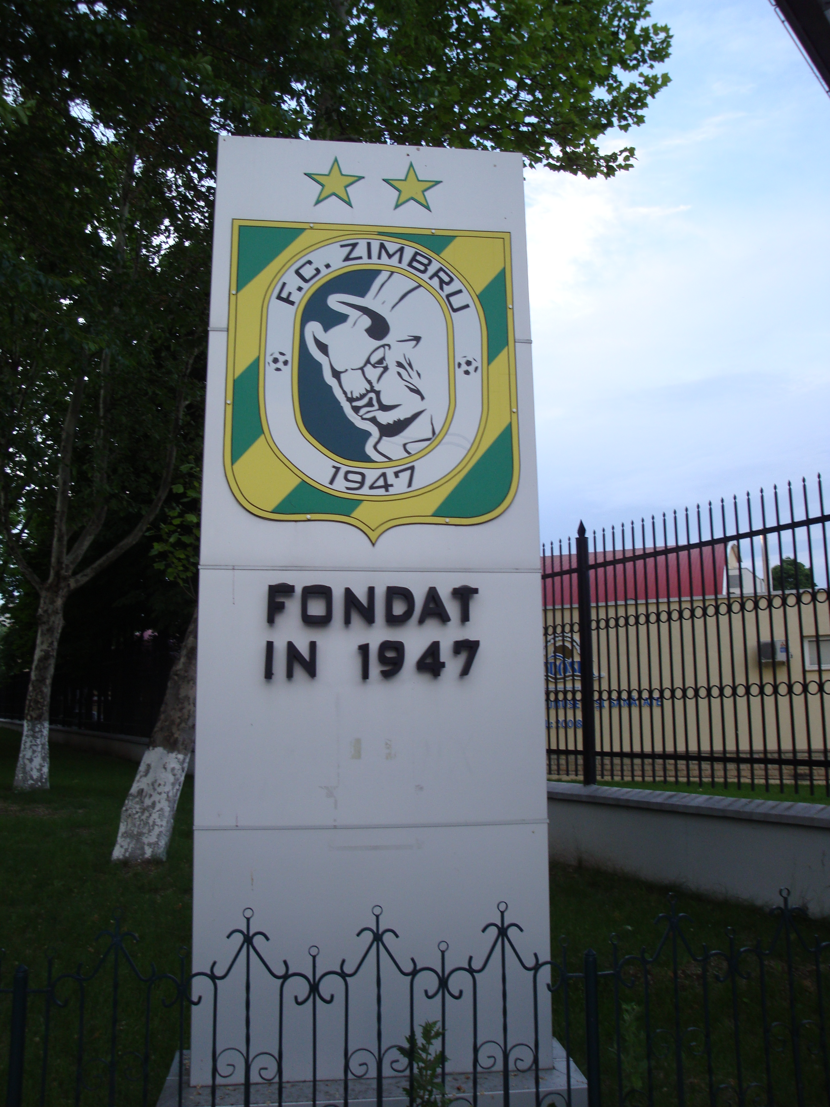 Zimbru Stadium, in Chisinau, Moldova